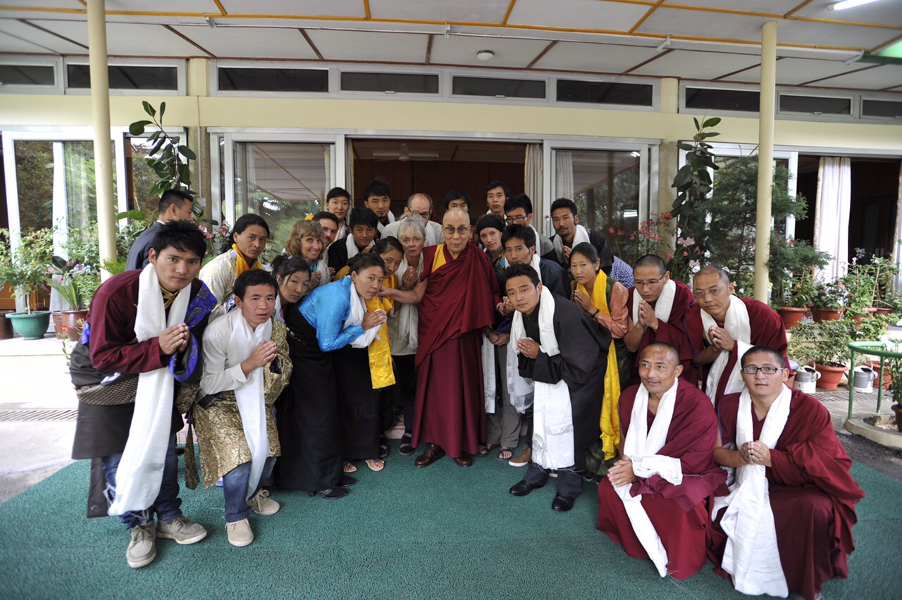 Kunpan Cultural School (ES Tibet foundation) graduation class of 2015 on 1 June 2015 with His Holyness, the 14th Dalai Lama in Dharamsala, Himachal Pradesh, India.